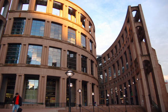 Vancouver Public Library